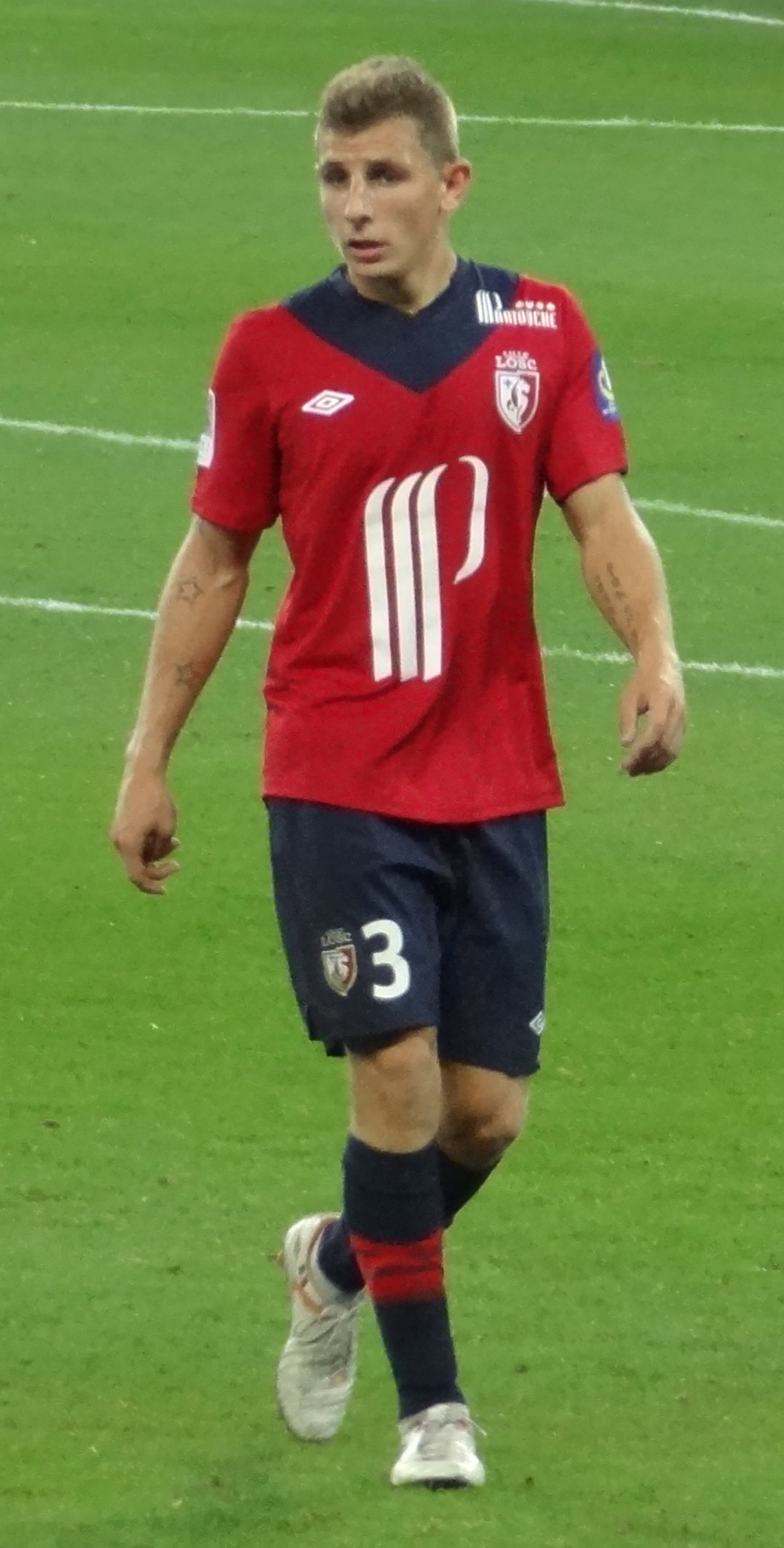 Lucas Digne (Lille LOSC)